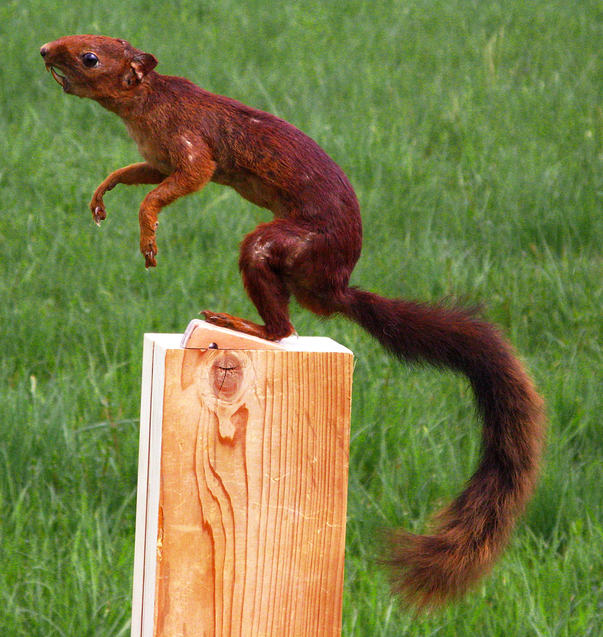 Southern Amazon Red Squirrel, Taxidermy of an animal collected by Johann Baptist von Spix in 1817-1820 in Brazil. Now in Zoologische Staatssammlung München.